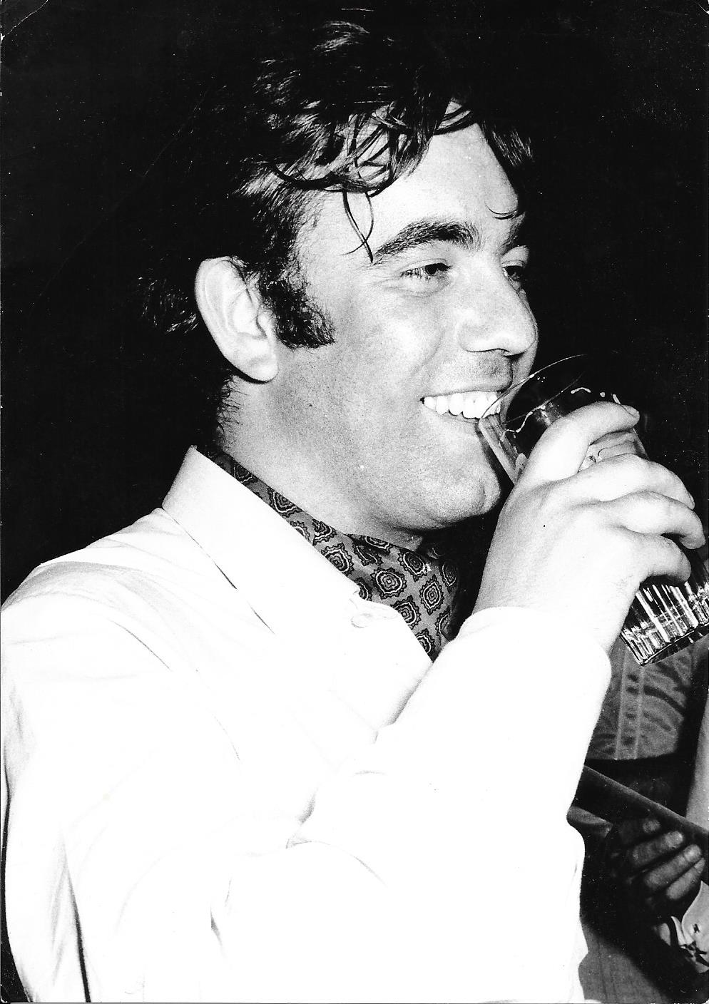 Antoon Carette, TV-producer